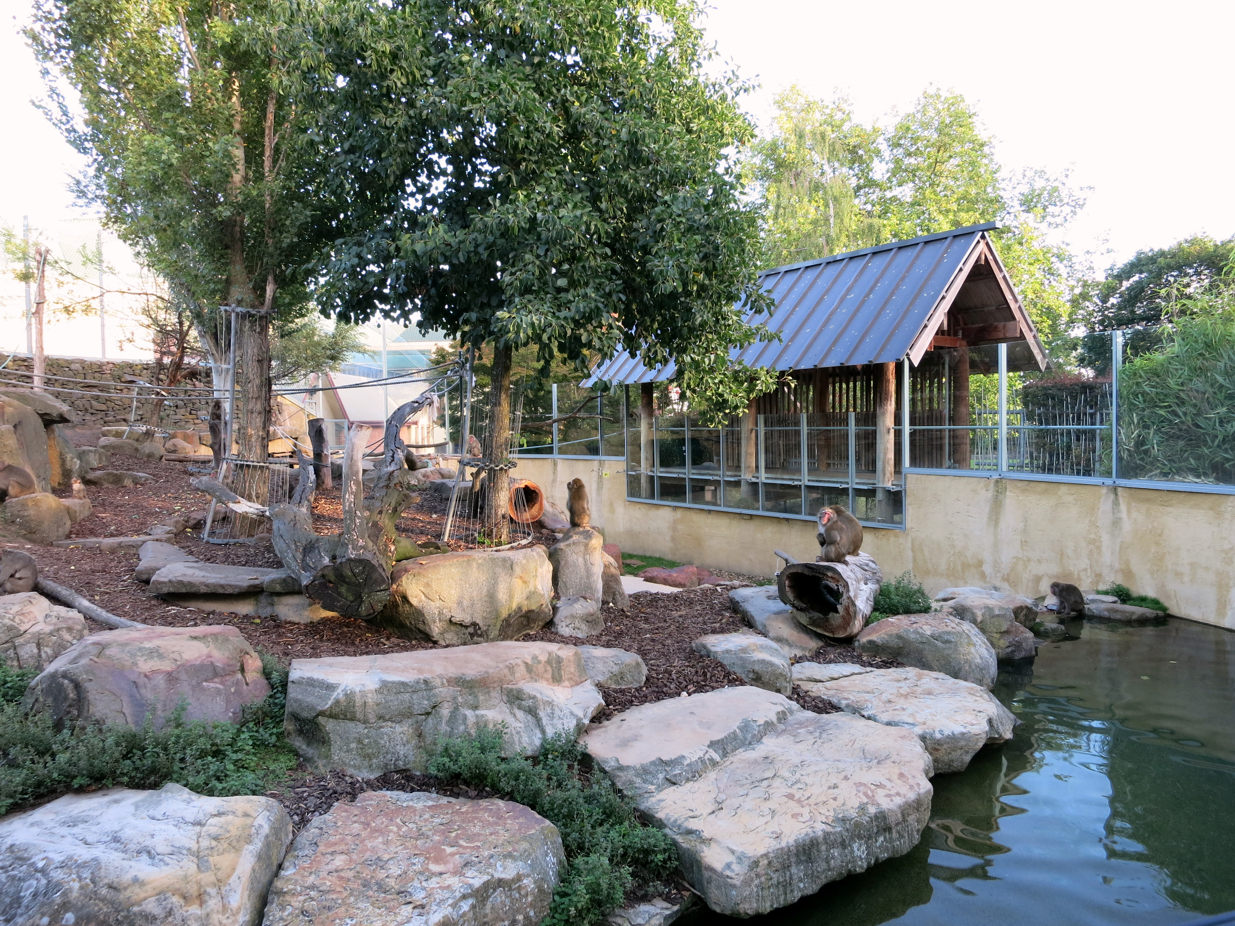 The macaque monkey enclosure in City Park in Launceston